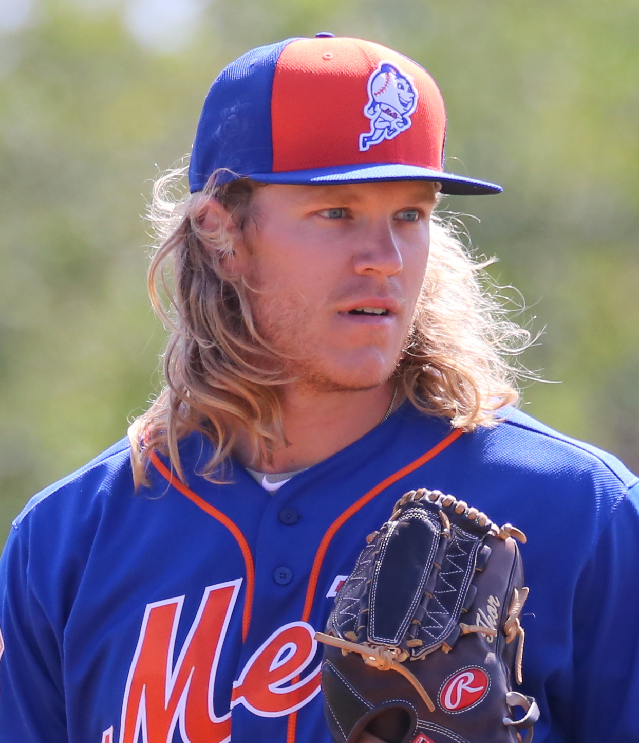 Noah Syndergaard with the New York Mets, February 28, 2016.